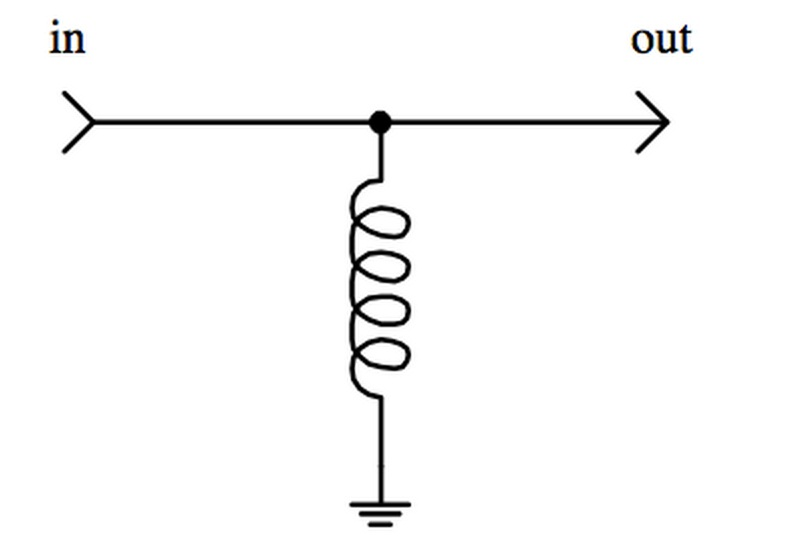 ACpass_Filter